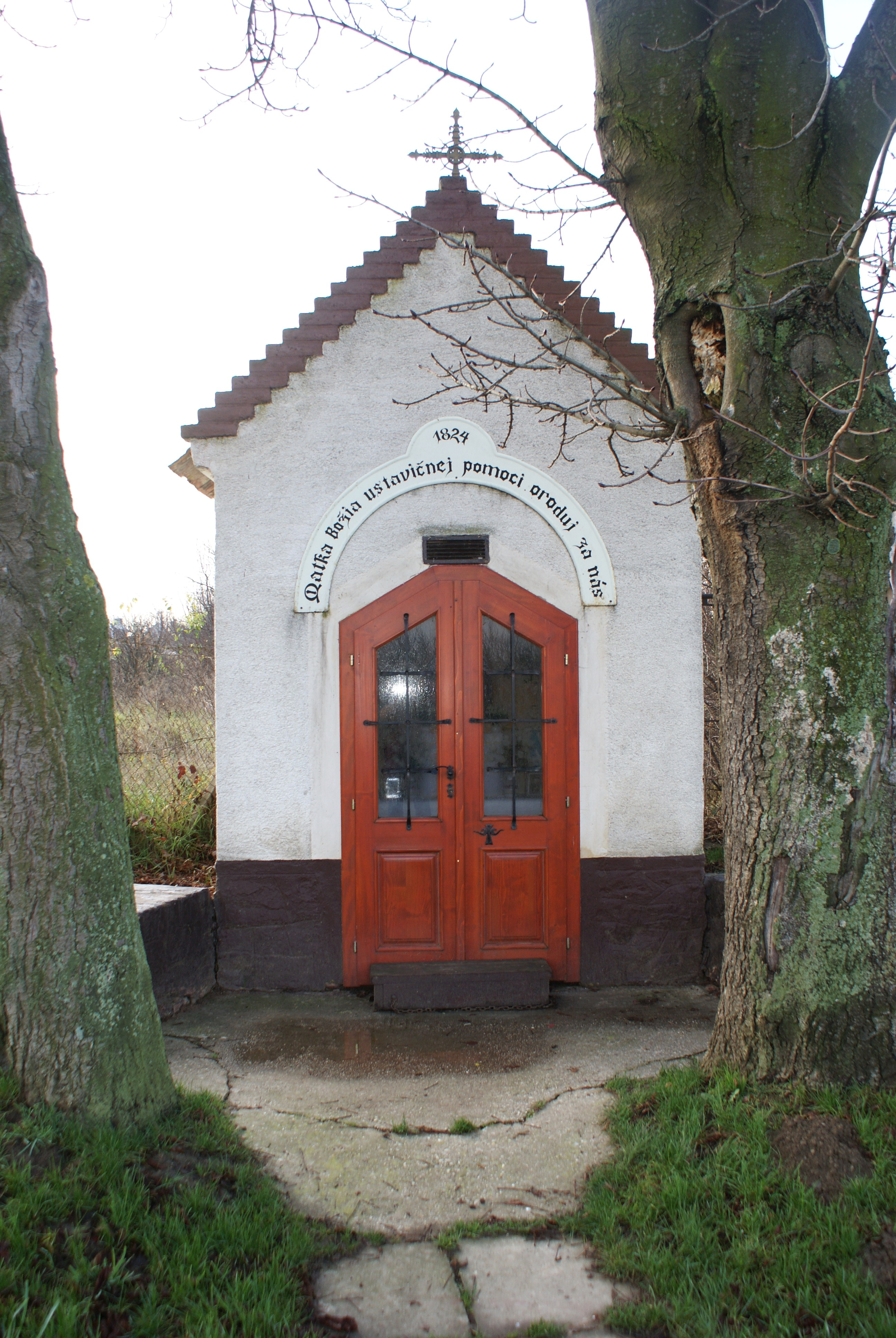 Košolná, a village in Trnava district, Slovakia, a chapel.